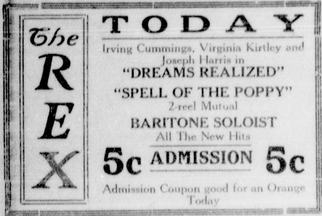 The Spell of the Poppy advert